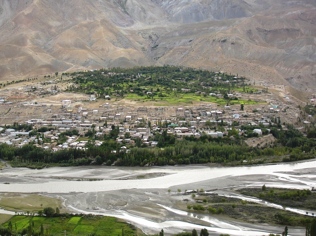 A view of Kargil, India.